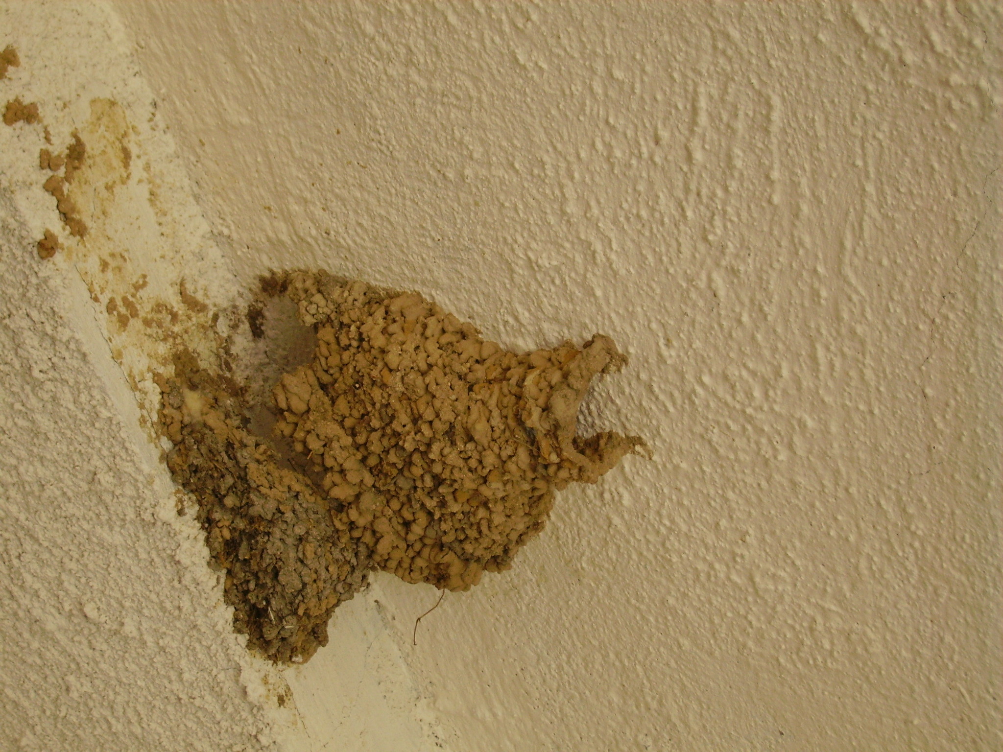 Nest of Cecropis daurica in Madrid